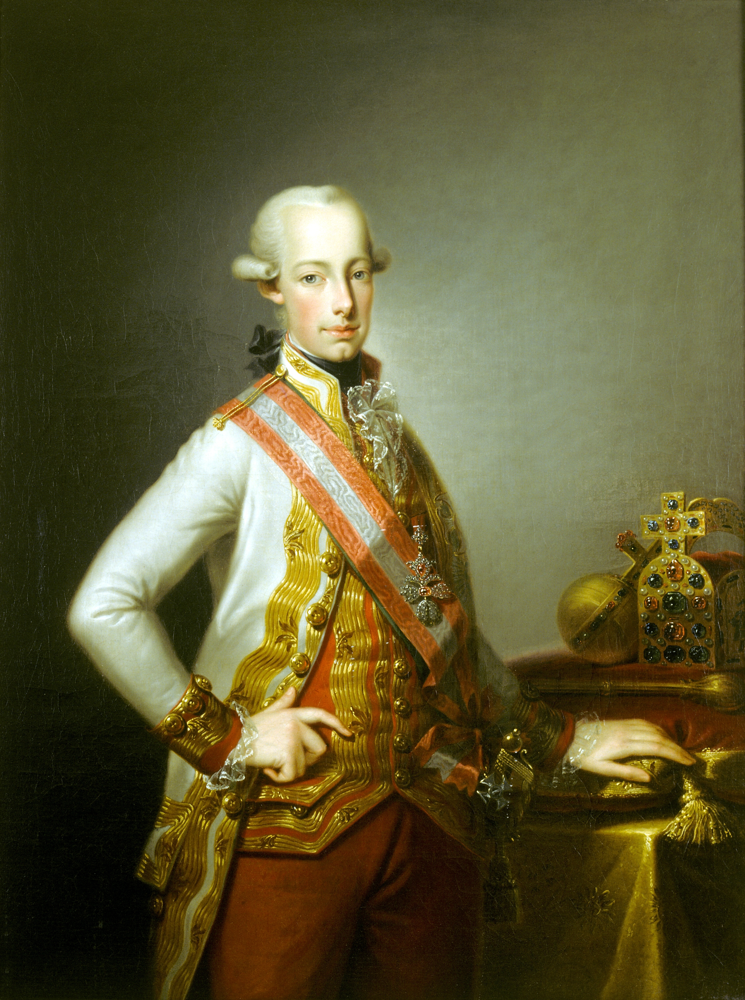 Portrait of Francis II, Holy Roman Emperor (1768-1835)